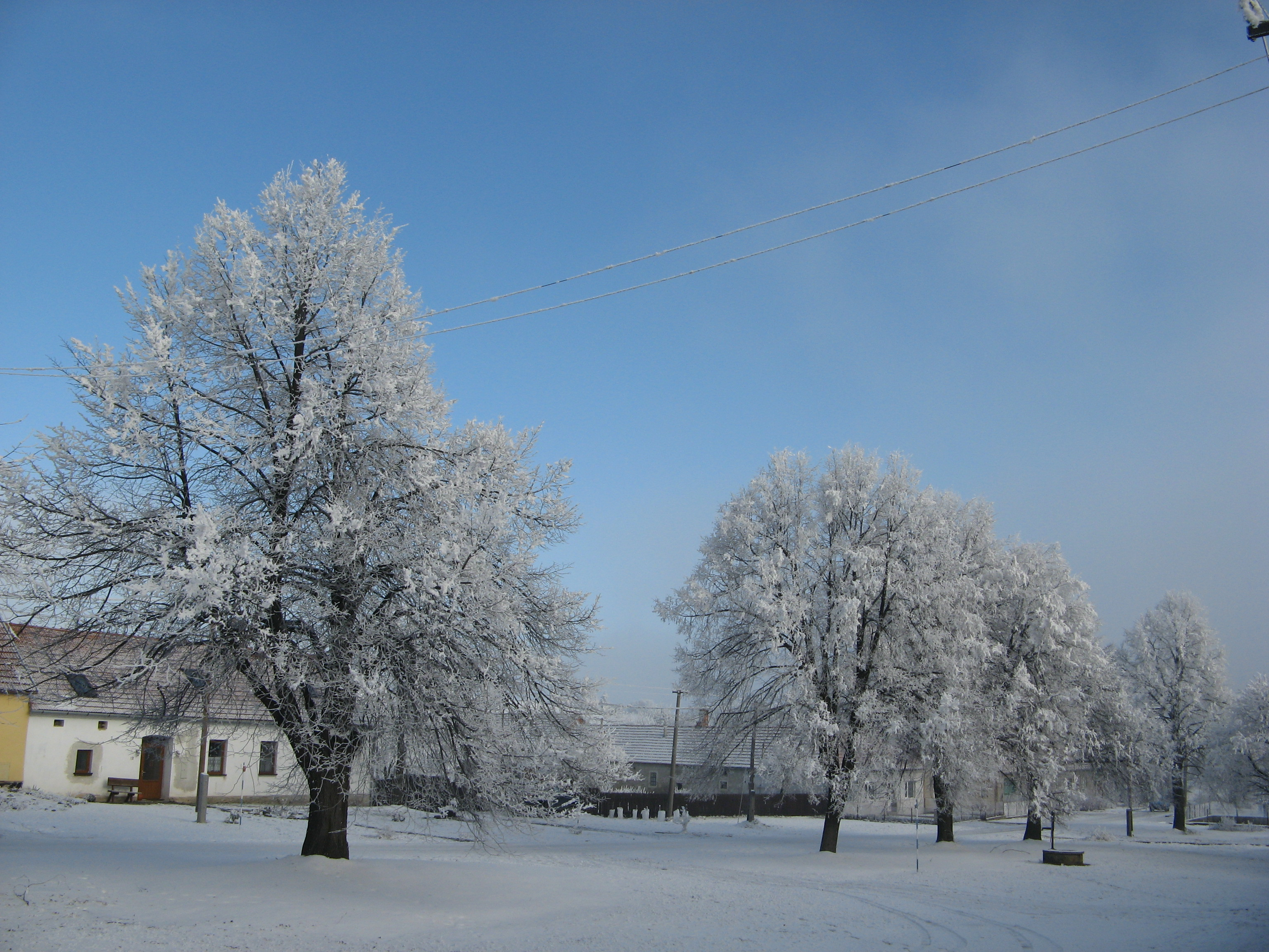 Winter in village of Bousín, Prostějov District, Czech Republic.